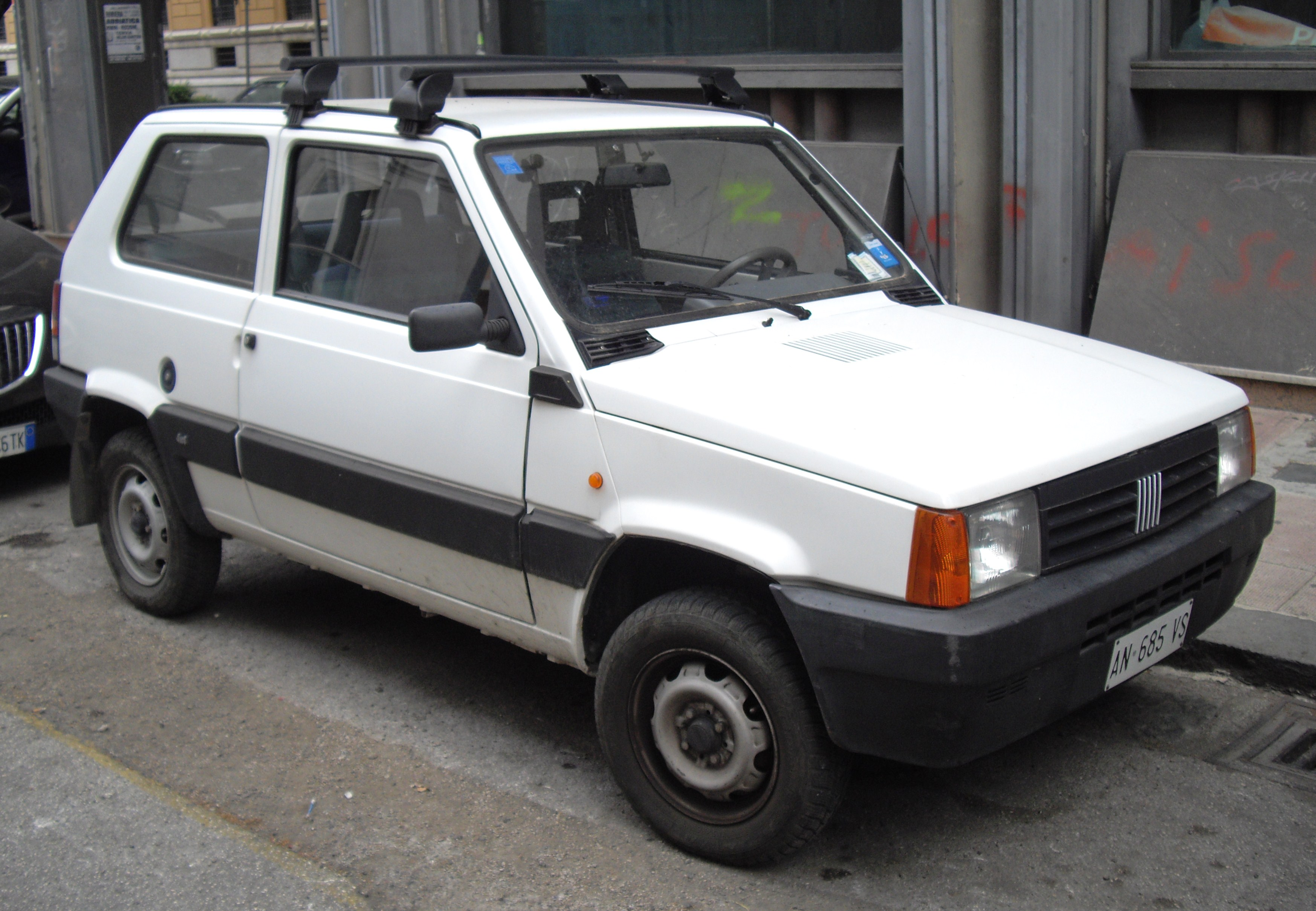 Fiat Panda 4x4 Trekking front